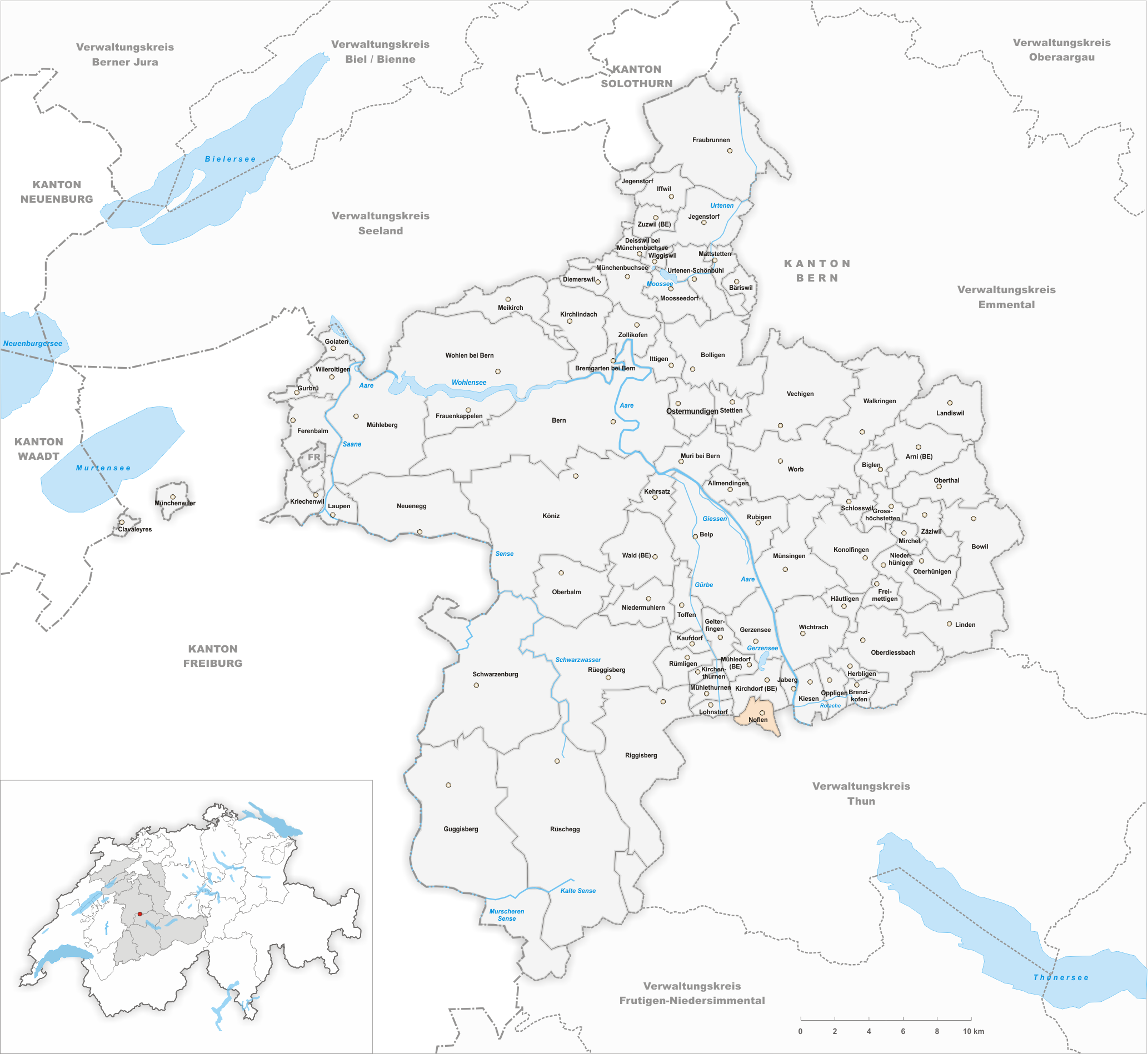 Municipality Noflen